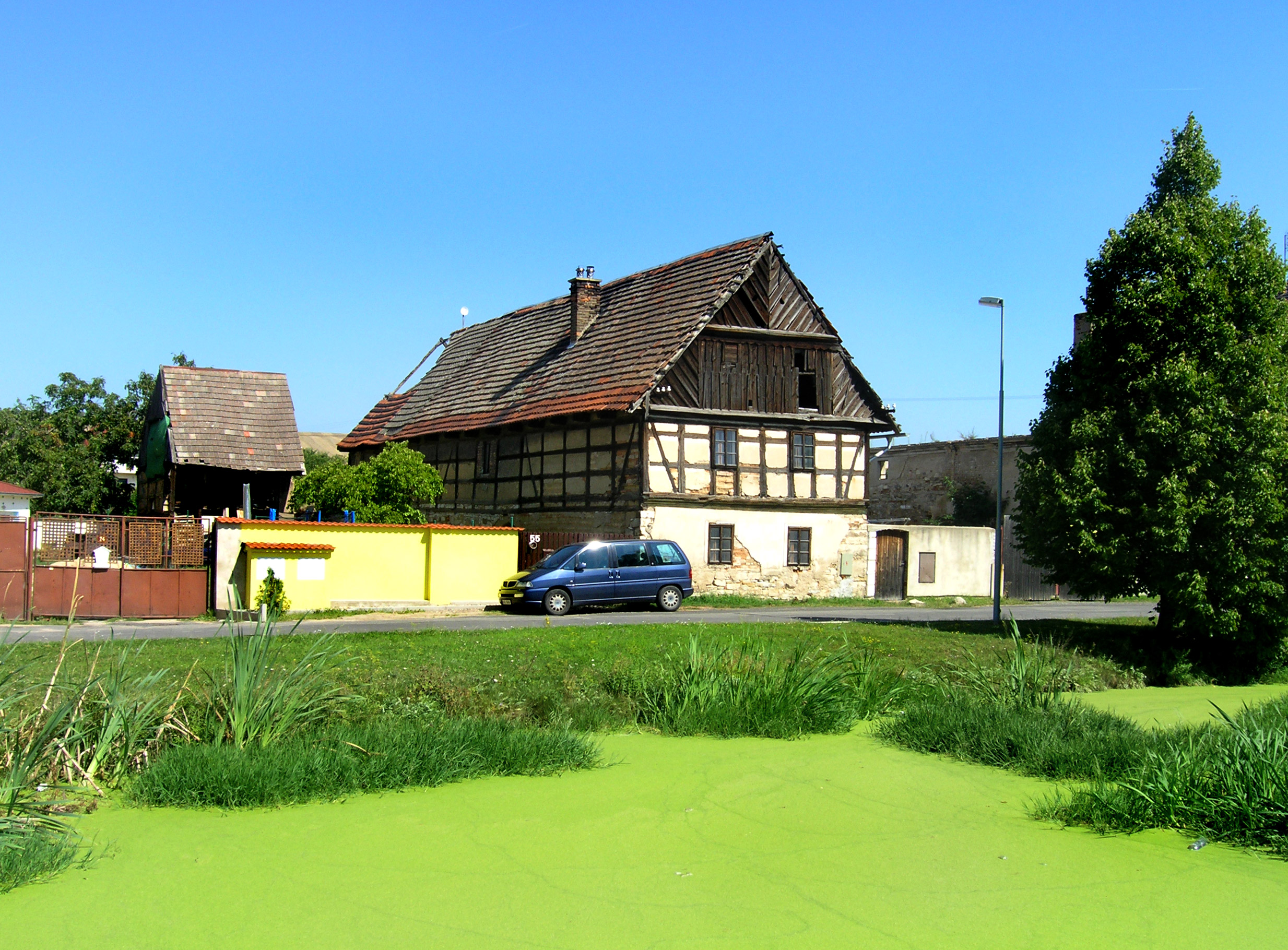 Common in Trnovany, Czech Republic